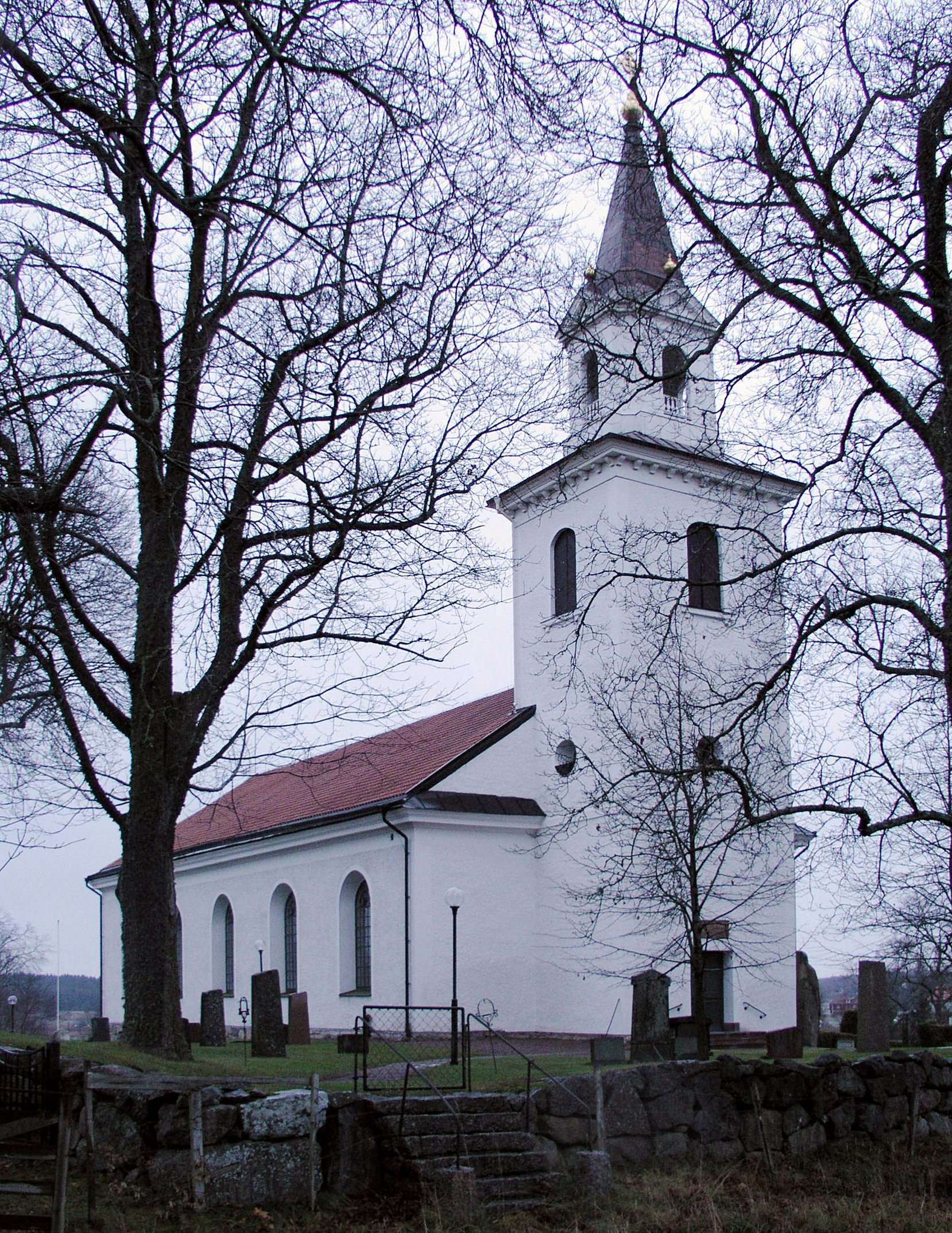 Törnevalla kyrka, Diocese of Linköping, Linköpings kommun. The picture was taken the 4th of December 2005 by Håkan Svensson (Xauxa).